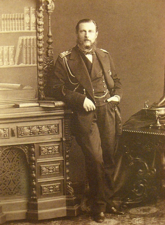 Grand Duke Constantine Nicholaevich of Russia